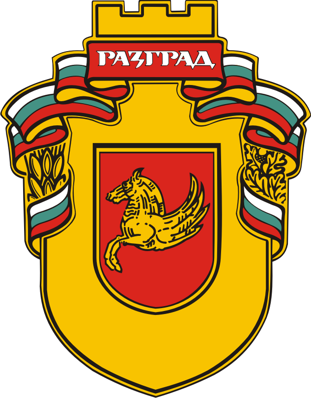 Emblem of Razgrad, Bulgaria